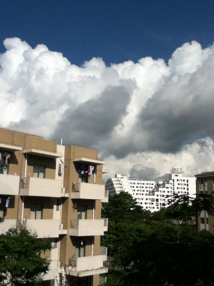 dormitory building，“Yanhua 7”